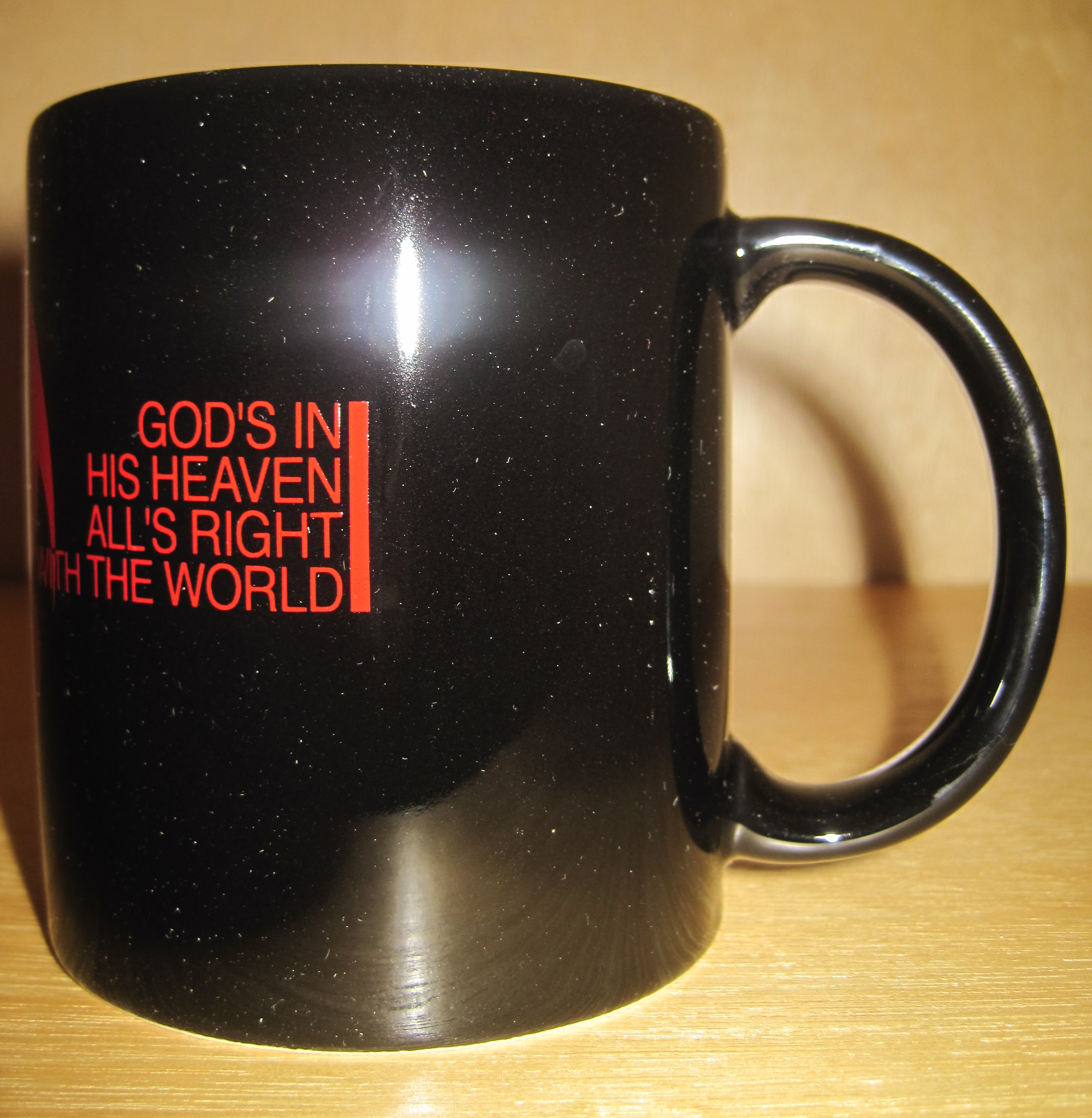 A Neon Genesis Evangelion mug with the revised Nerv logo (not shown). Author's collection.